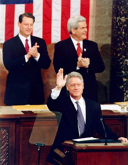 Al Gore and Newt Gingrich applaud to US President Clinton waves during the State of the Union address in 1997.